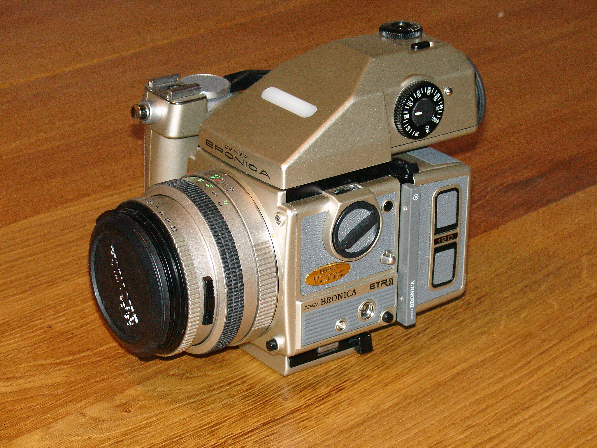 40th anniversary special edition of the Bronica ETR-Si